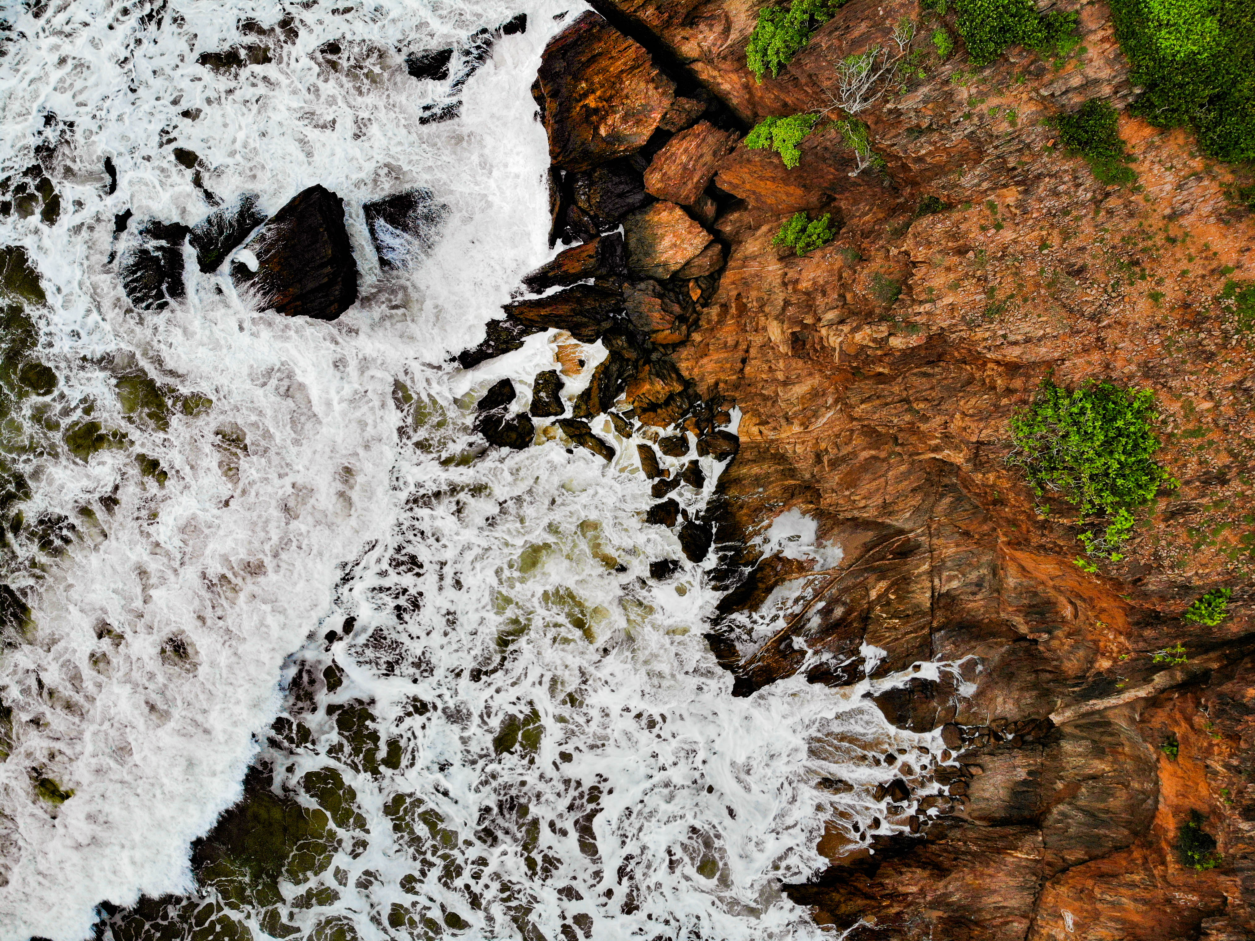 Aerial photograph of Yarada beach located near Visakhapatnam